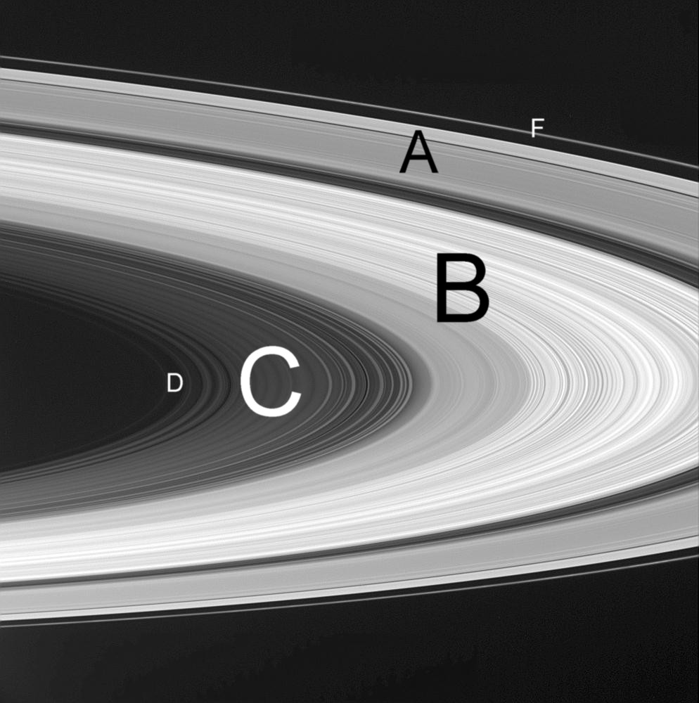 The rings of Saturn, with the major rings labelled